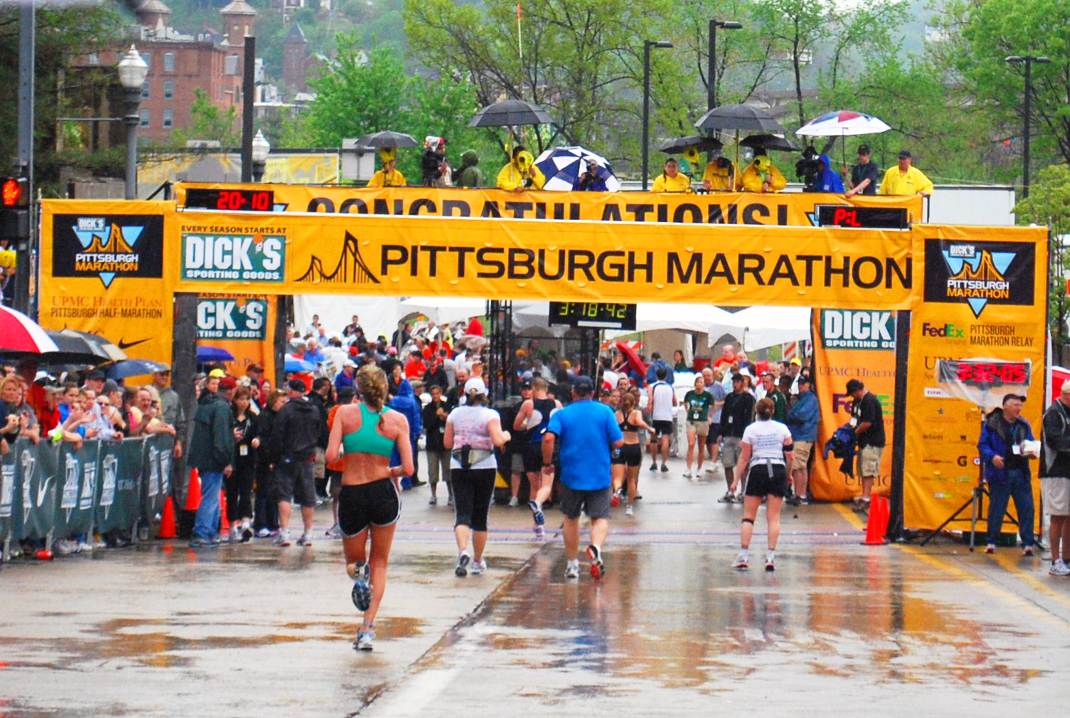 Finish line of the Pittsburgh Marathon. Also available on John Marino's Flickr page.